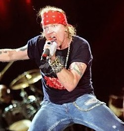 Axl Rose in 2010 concert